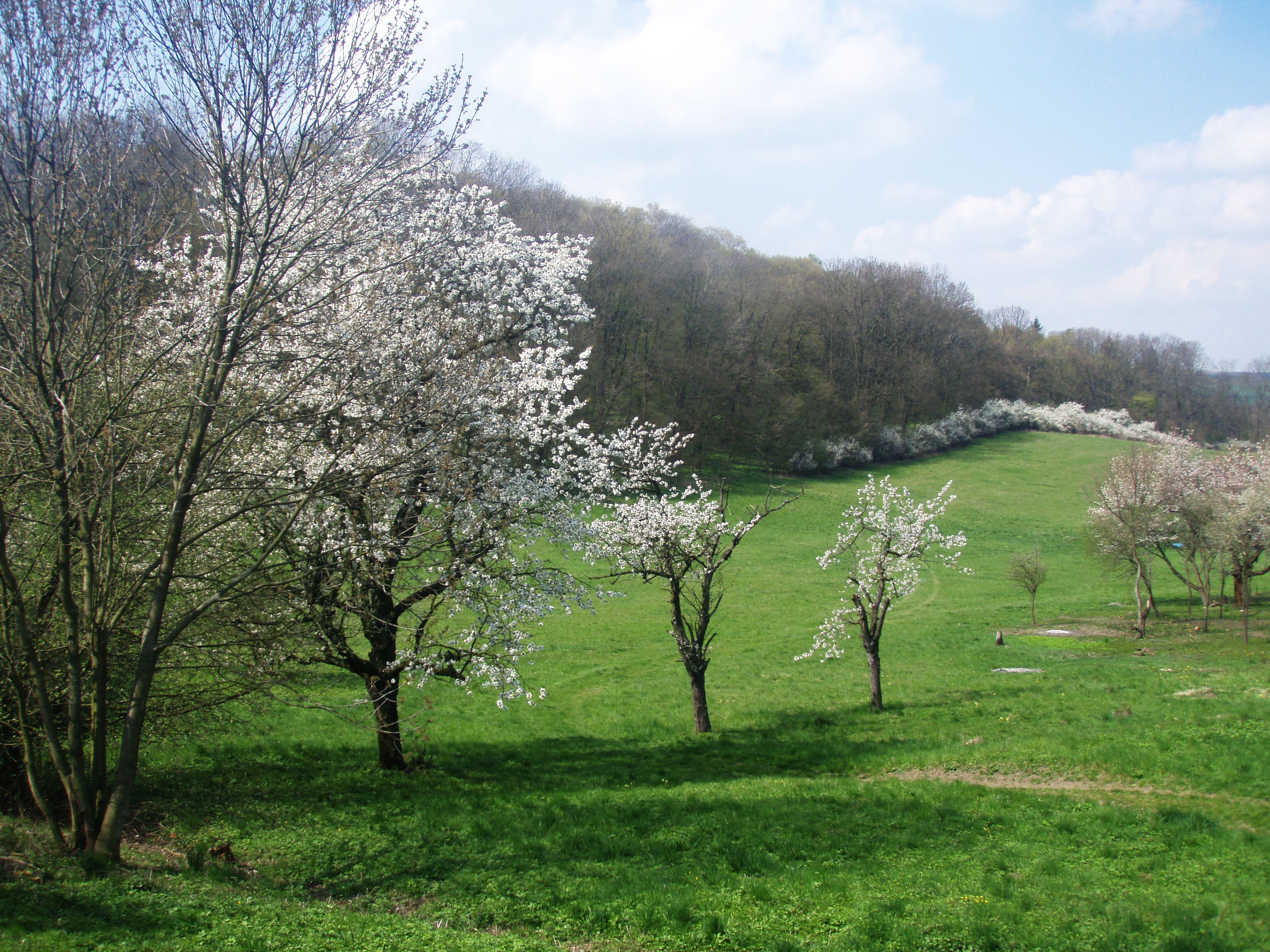 Nature reserve Habrov near Chrudim in Chrudim District, Czech Republic